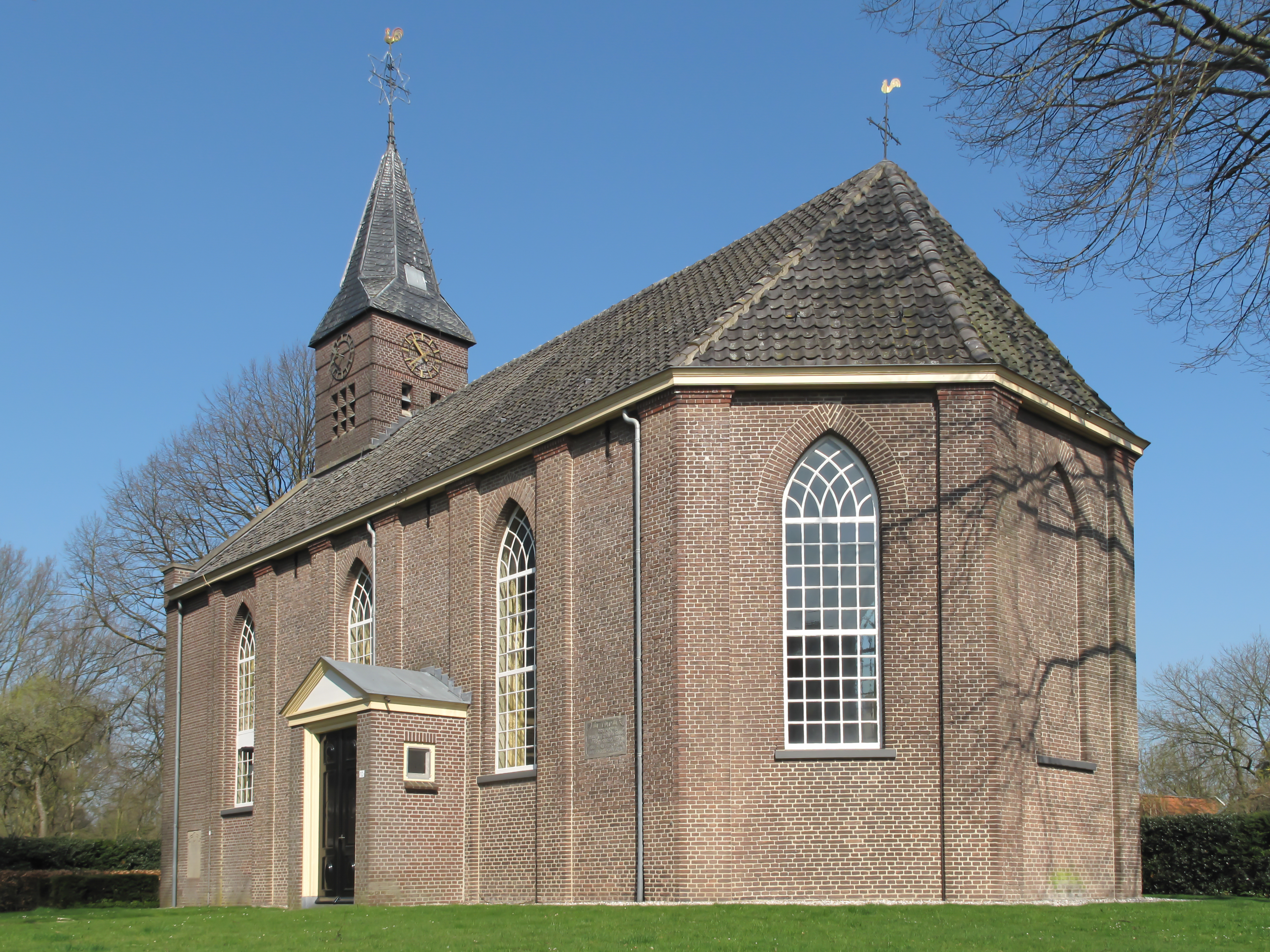 Gelselaar, reformed church